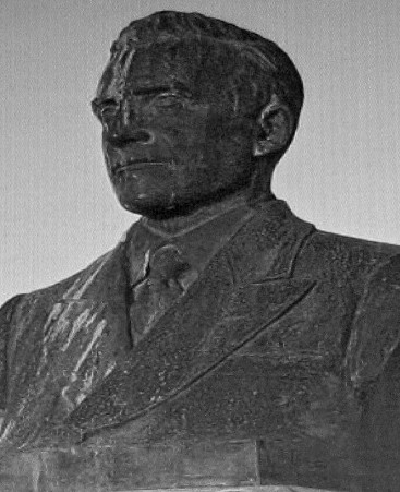 Statue of Landulfo Alves - Cruz das Almas - Bahia State - Brazil